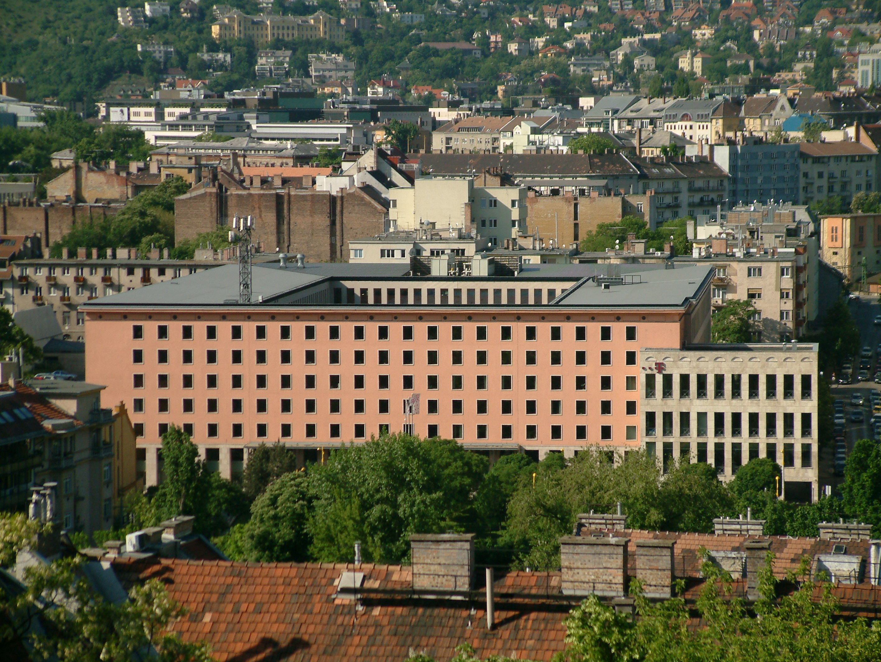 Headquarters of Magyar Telekom (Budapest)